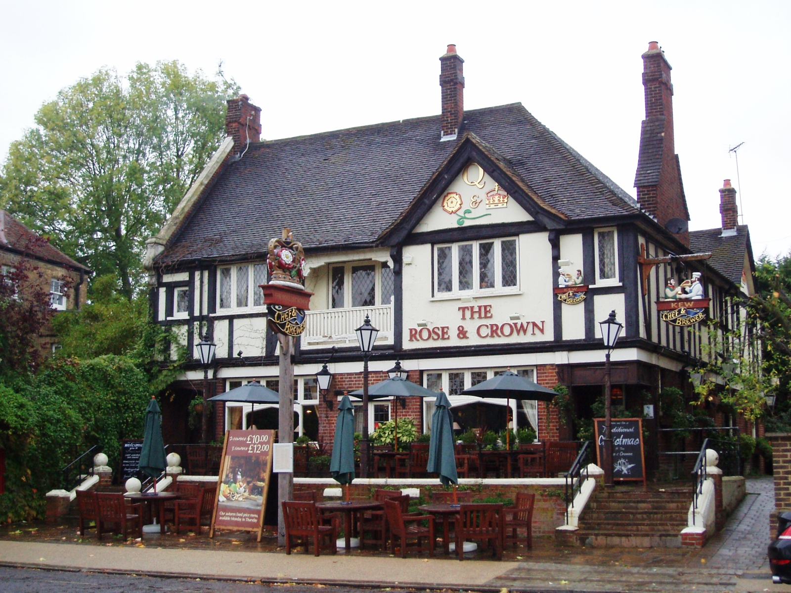 Attractive building overlooking Kew Green. Address: 79 Kew Green. Owner: Spirit Pub Company [Chef and Brewer] (website); Punch Taverns (former); Scottish and Newcastle [Chef and Brewer] (former). Links: Fancyapint Beer in the Evening Qype Dead Pubs (history)